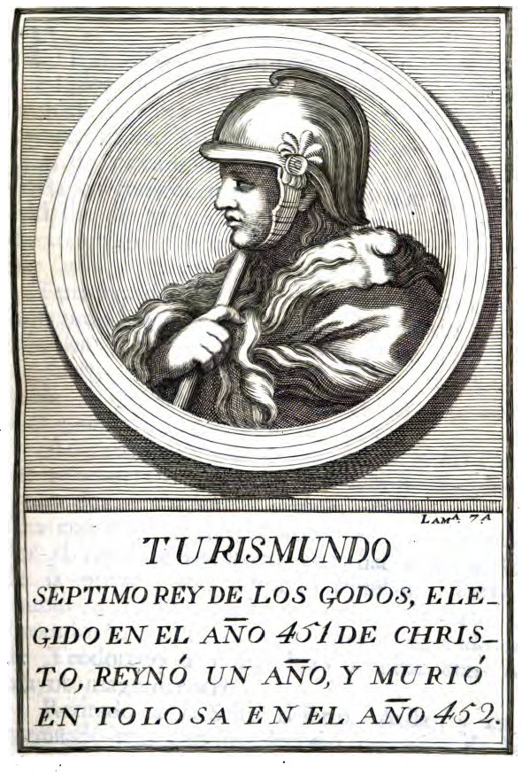 A poster of TURISMUNDO, Visigoth king, n° 7 in the chronological order of the book digitalized by Google since the bookshop in the University of Oxford.